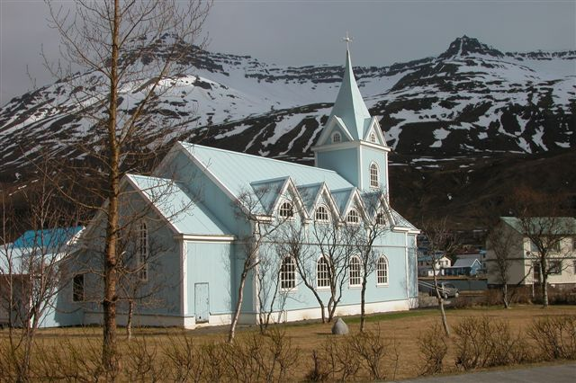 Church of Seyðisfjörður